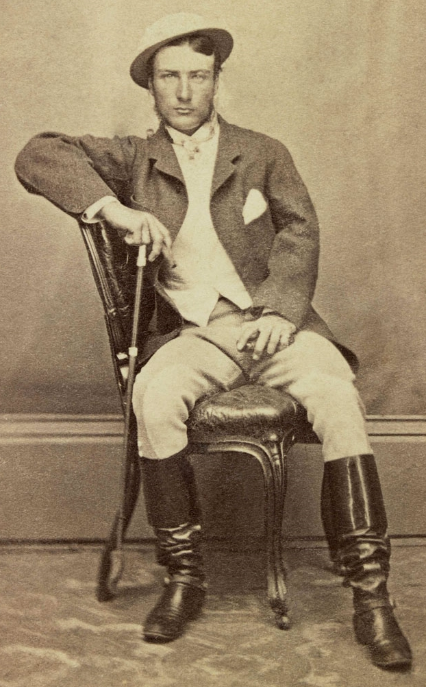 Australian author Marcus Clarke, albumen silver photograph.